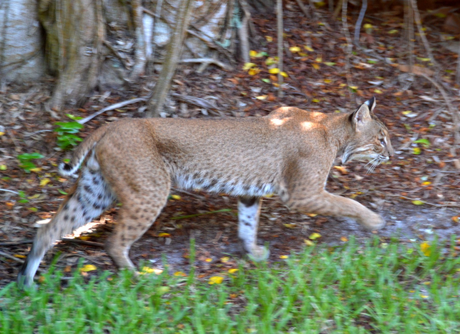 Male Bobcat (Lynx rufus), observed in garden, Sanibel Island, Florida